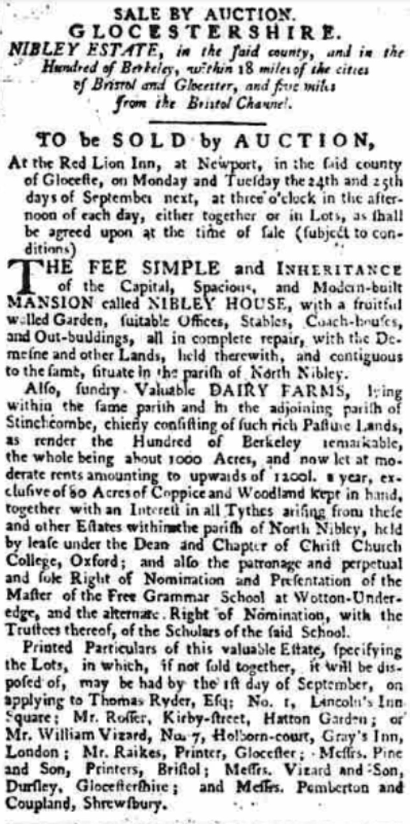 Sale advertisement for Nibley House in 1798